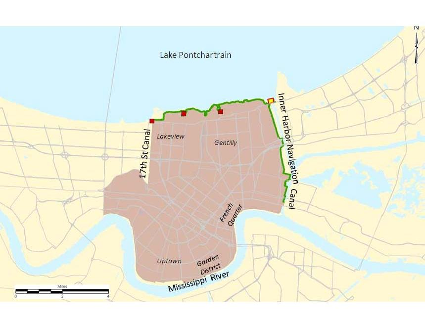 Image courtesy of USACE.